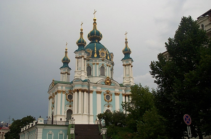 Church of St. Andrew in Kiev, Ukraine.